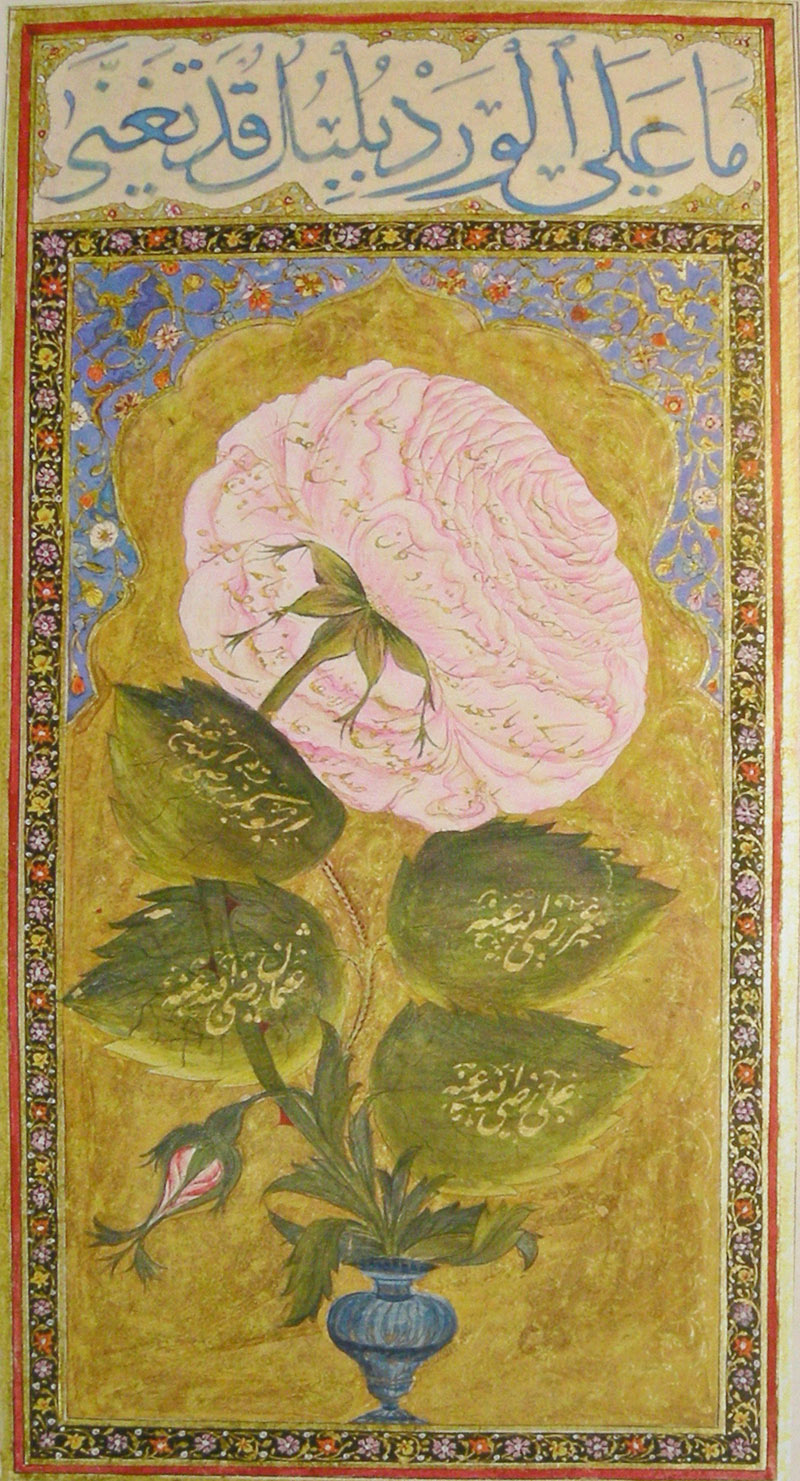 Hilye of the Prophet Muhammad in the shape of a pink rose, from an eighteenth-century Ottoman Turkish album of hilyes. Sadberk Hanım Museum, Istanbul, no. 10602 Y8, fol. 9r.